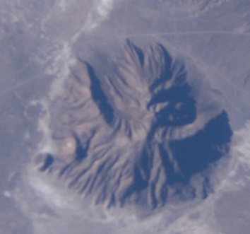 A photography of Cerro Pumiri from space